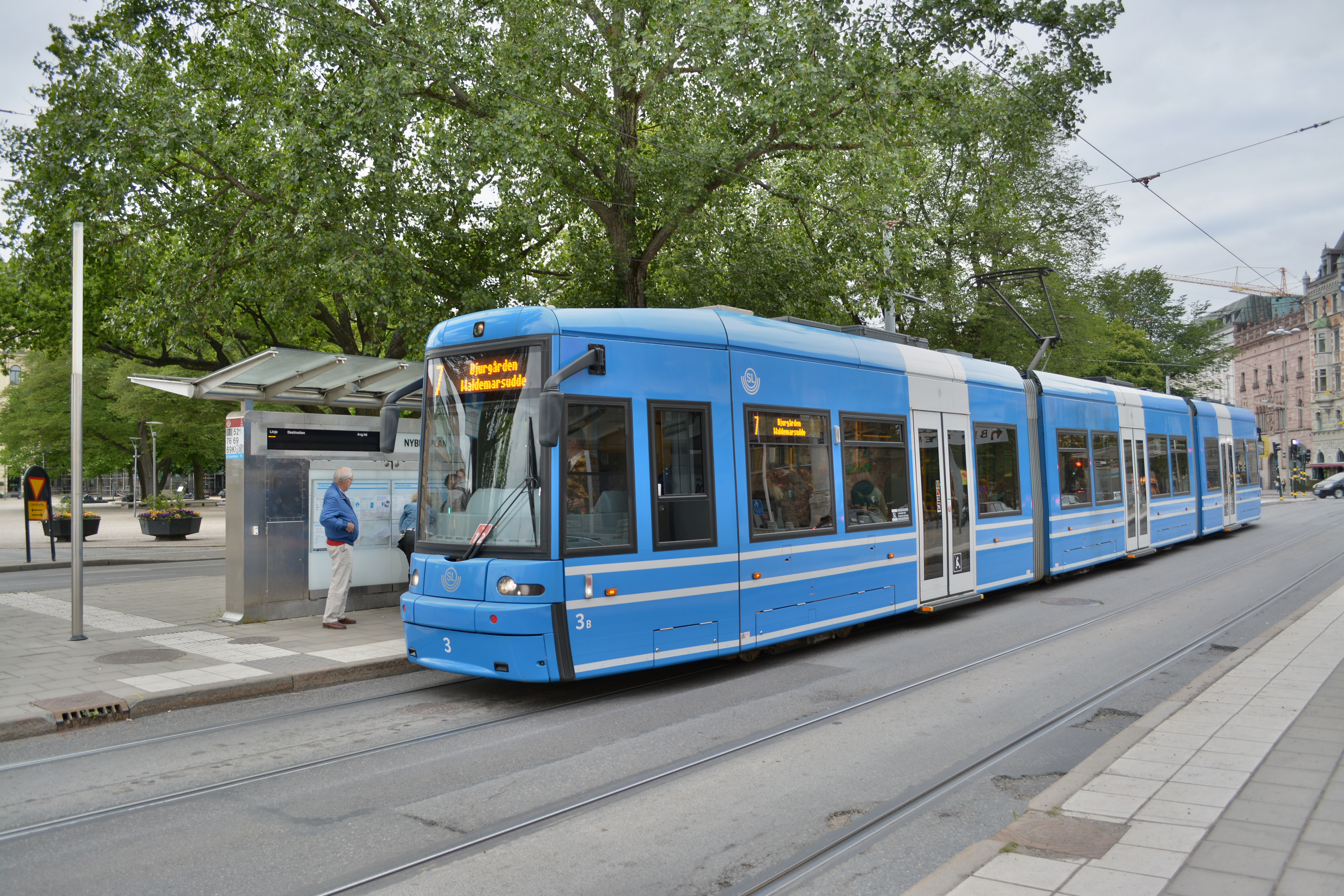 at Station Nybroplan